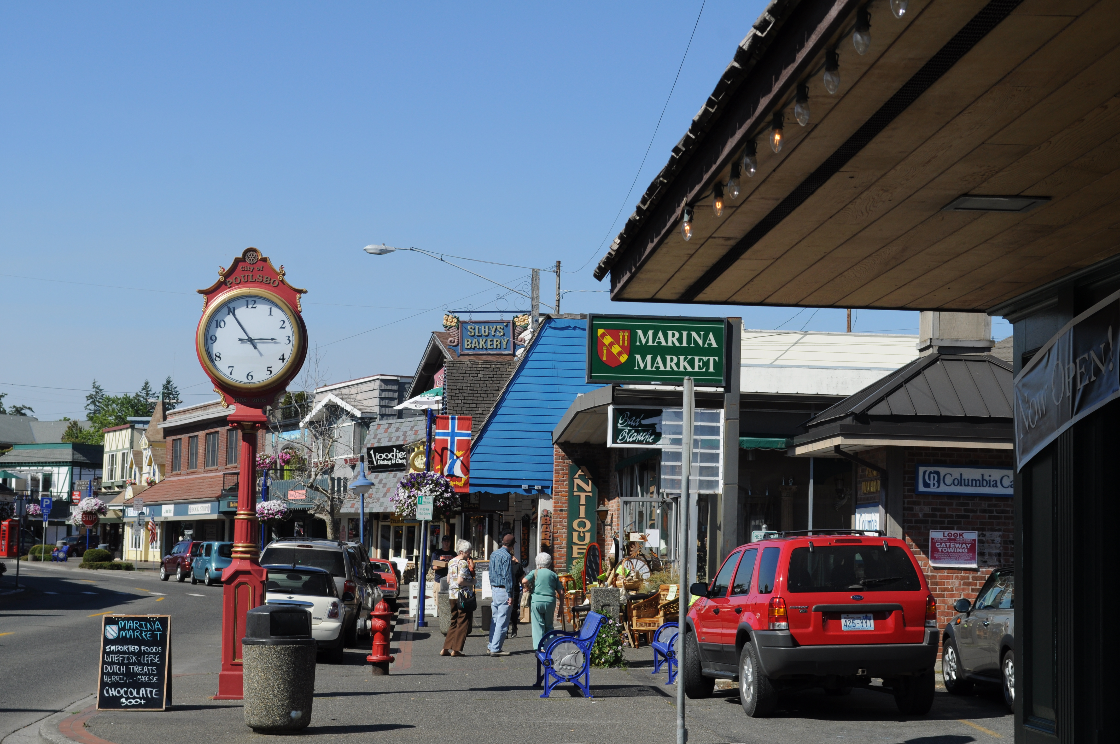 Front Street, Poulsbo, Washington, USA.